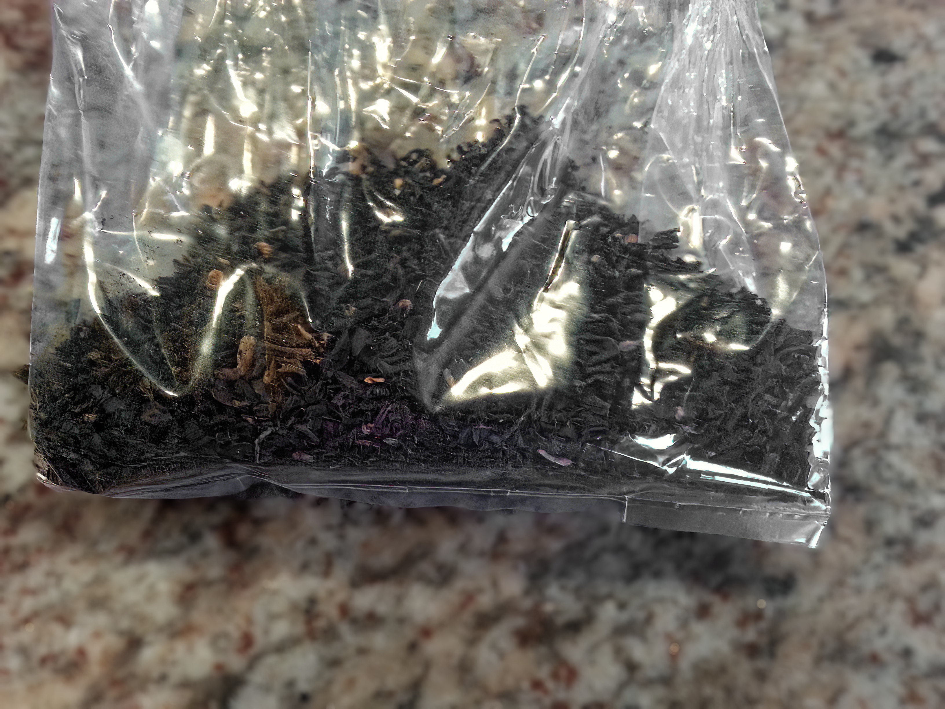 1 ounce of English breakfast tea